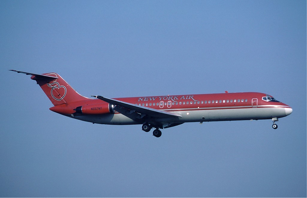 A Douglas DC-9-32 (N557NY) of New York Air at Detroit Metropolitan Wayne County Airport